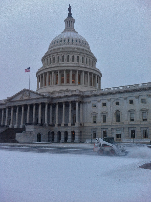 Snowfall on January 24, 2013.